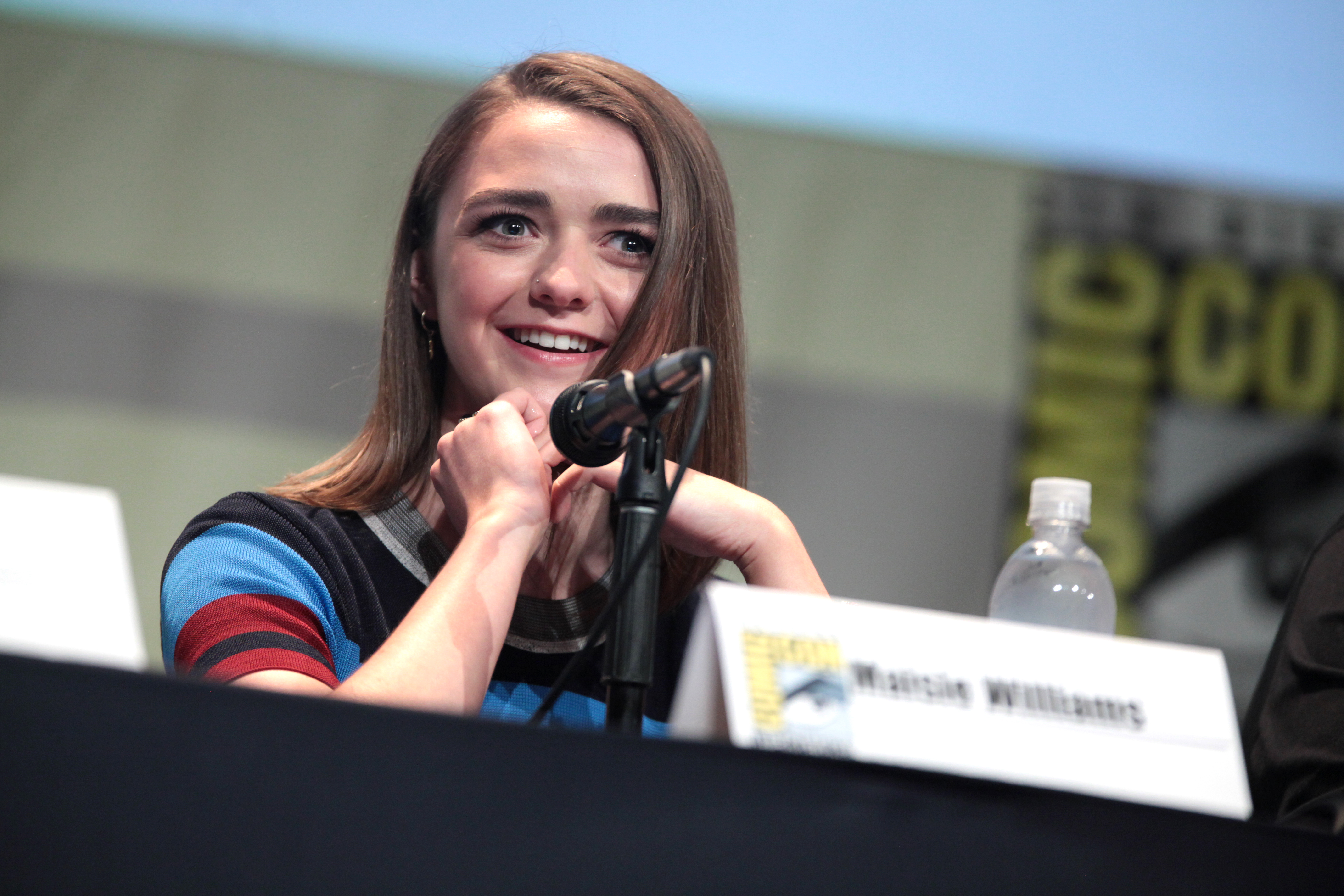 Maisie Williams speaking at the 2015 San Diego Comic Con International, for "Game of Thrones", at the San Diego Convention Center in San Diego, California.